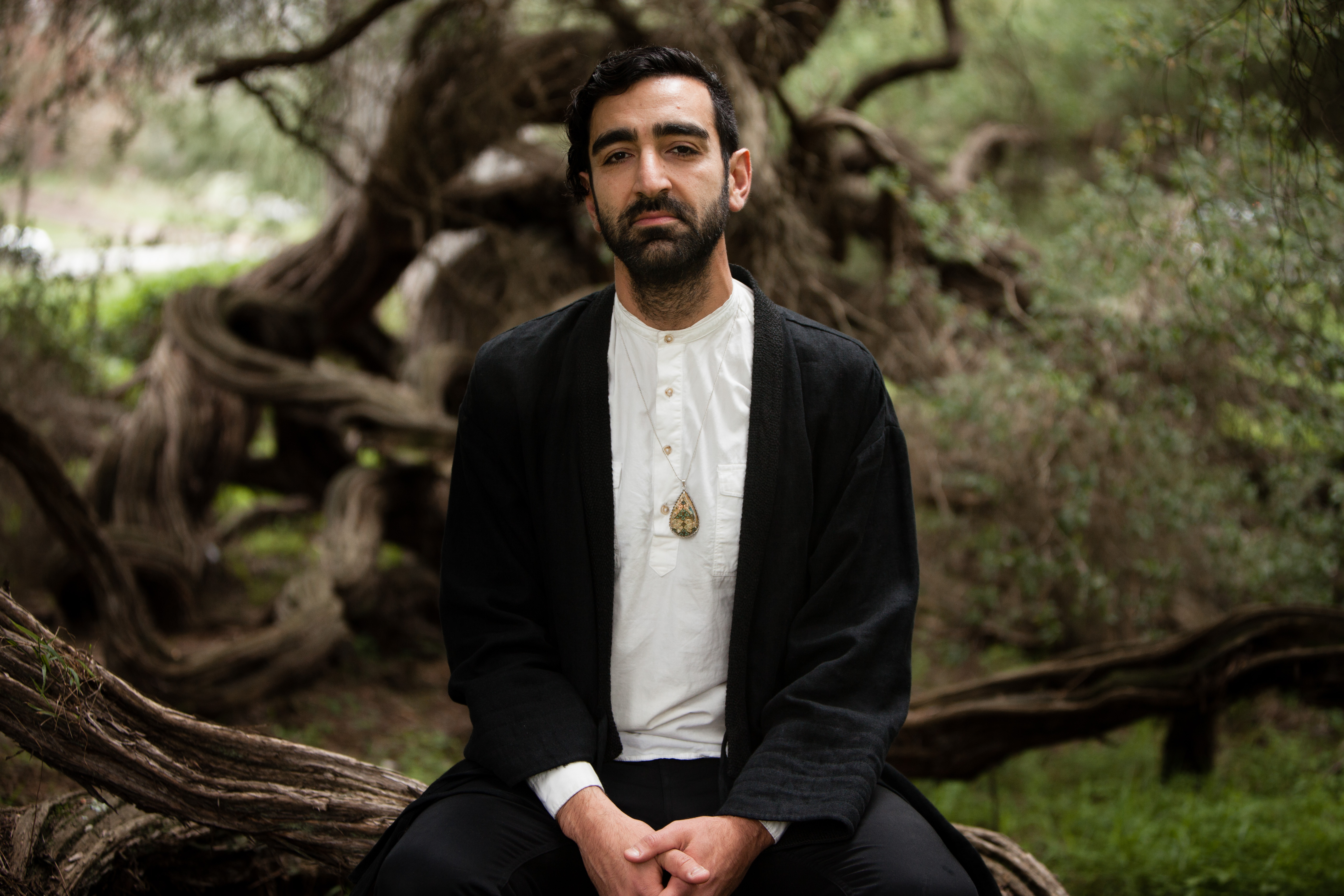 Sahba Aminikia in 2018